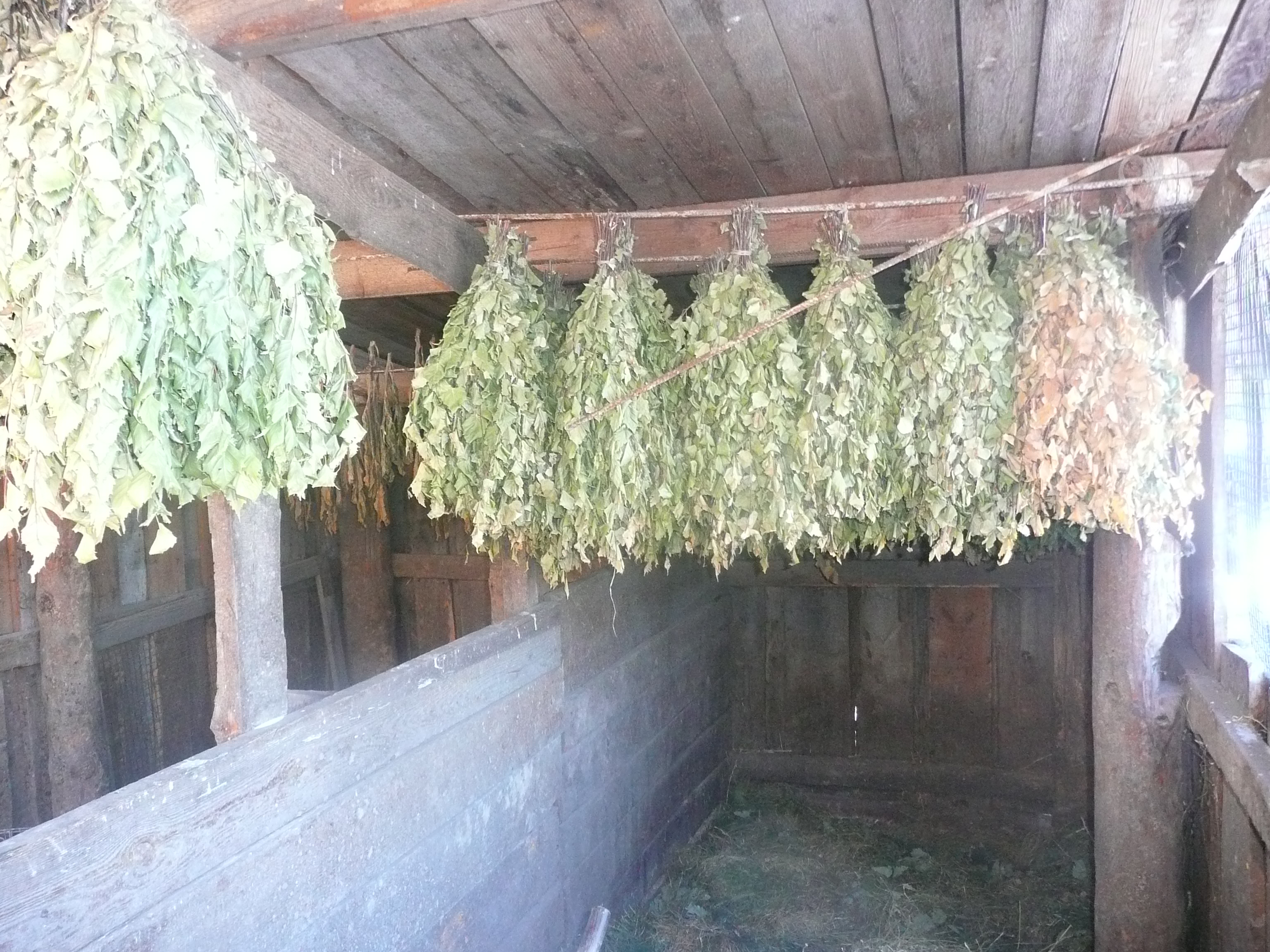 Little "broom" of leaves used in the russian bath (banya)